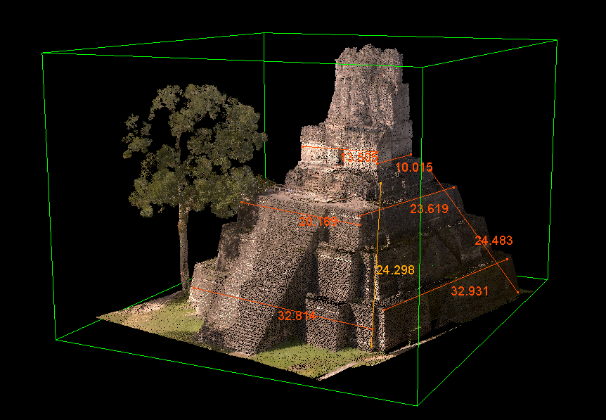 Photo-textured 3D laser scan elevation of Temple II, showing measurements and dimensions for this Step pyramid. The eighth-century Tikal king Jasaw Chan K'awiil I commissioned Temples I and II during his reign. Temple II is dedicated to his wife, Lady Twelve Macaw (died 704 A.D.), and she is interred within it. In contrast to Egyptian pyramids, to which they are often erroneously compared, Maya "Step pyramids", as with Mesoamerican pyramids in general, served numerous functions besides mortuary ones, and were constructed not from large, solid stone blocks but from smaller, cut stone blocks on top of a rubble-fill core. Additionally, many Maya Temples such as Temple II are not mathematically pyramidal - the base angles vary, as one side was built at a less severe slope to allow for a usable staircase. Such "pyramids" are thought to emulate the shape of mountains and volcanoes, a common pattern found across ancient Mesoamerica.